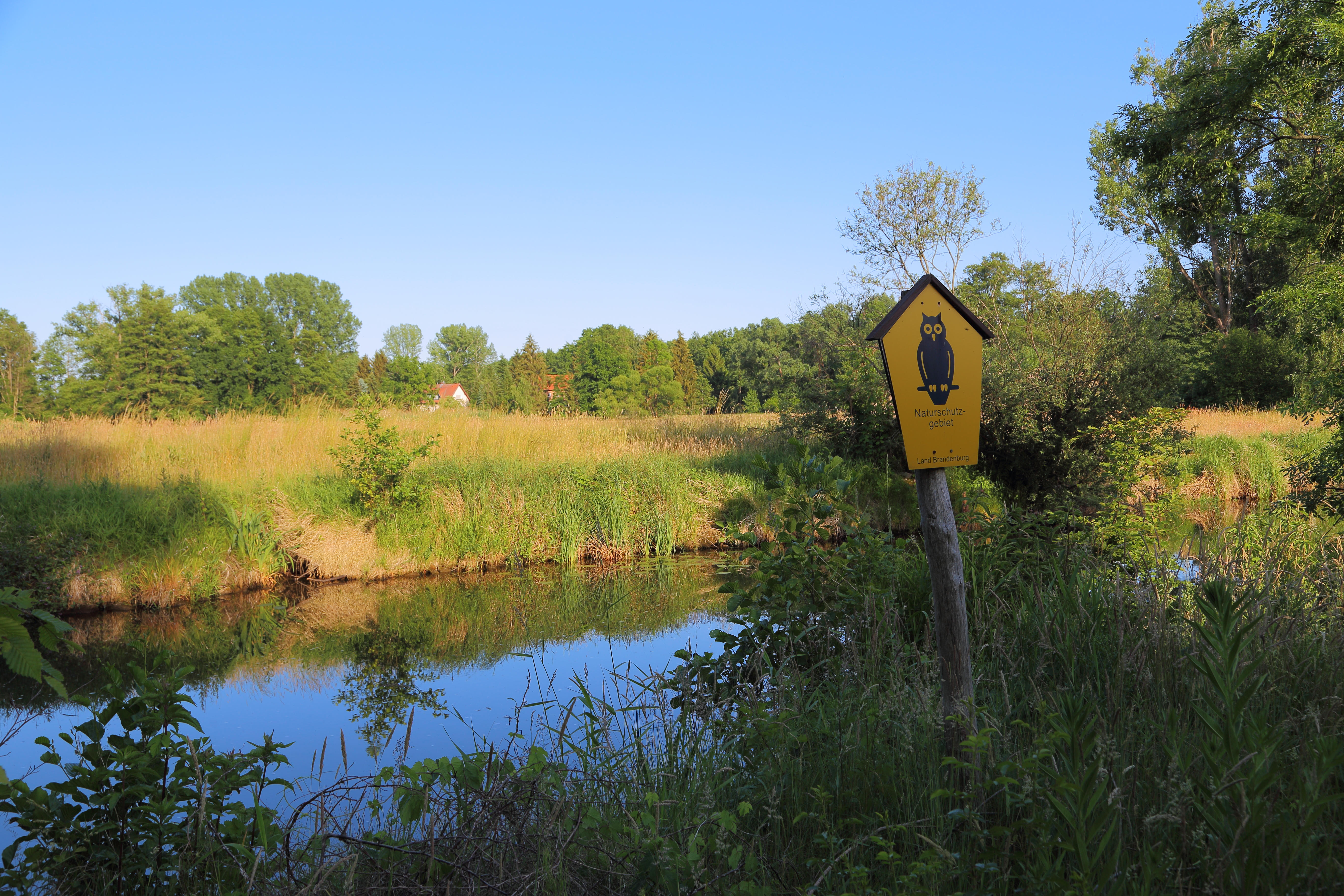 At the Innerer Unterspreewald nature reserve near Schlepzig, Landkreis Dahme-Spreewald, Brandenburg, Germany.